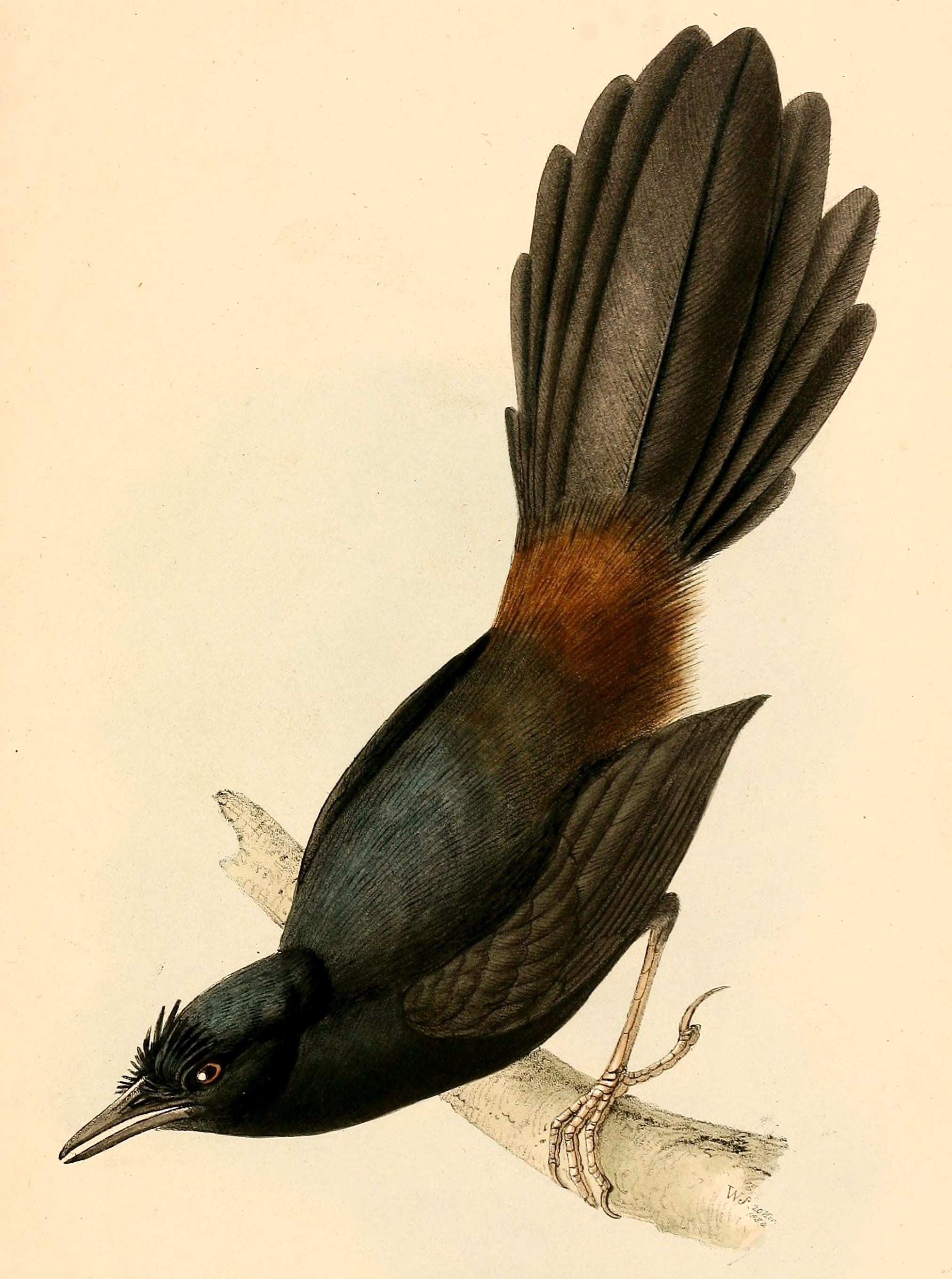 Platyurus corniculatus = Merulaxis ater (Slaty Bristlefront) - male